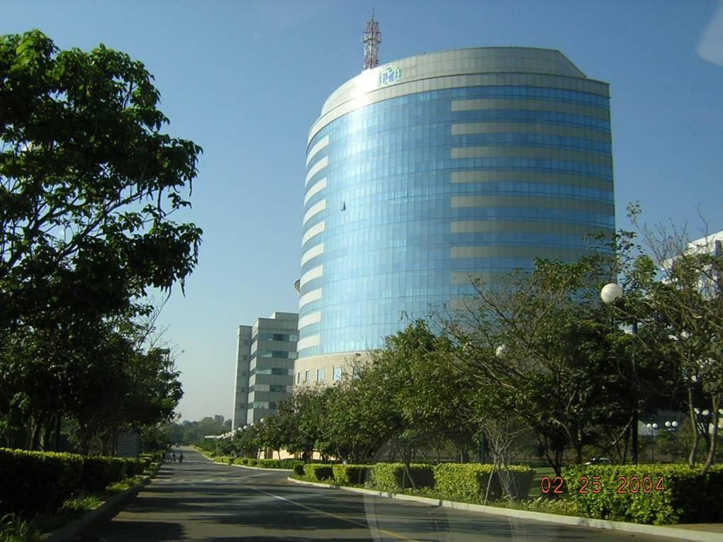 International Technology Park Limited, Bangalore